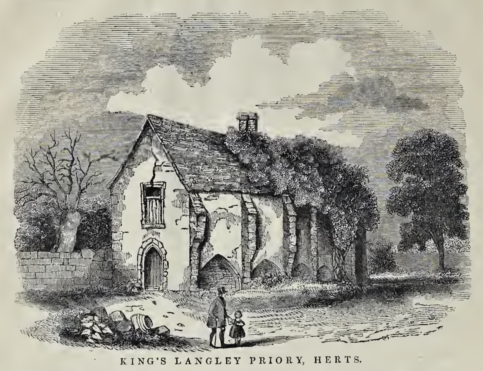 King's Langley Priory ruins, Hertfordshire, United Kingdom, from an illustration in the trade periodical The Builder, 1844